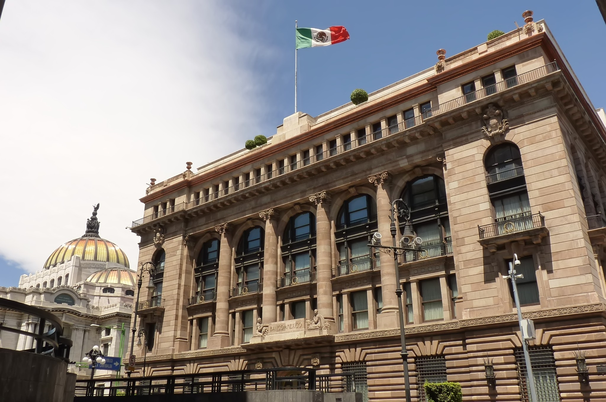 Mexico's National Bank & National Institute of Fine Artes (backwards).